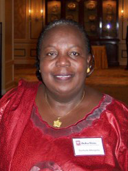 Gertrude Mongella when she was awarded the 2005 Delta Prize Award.